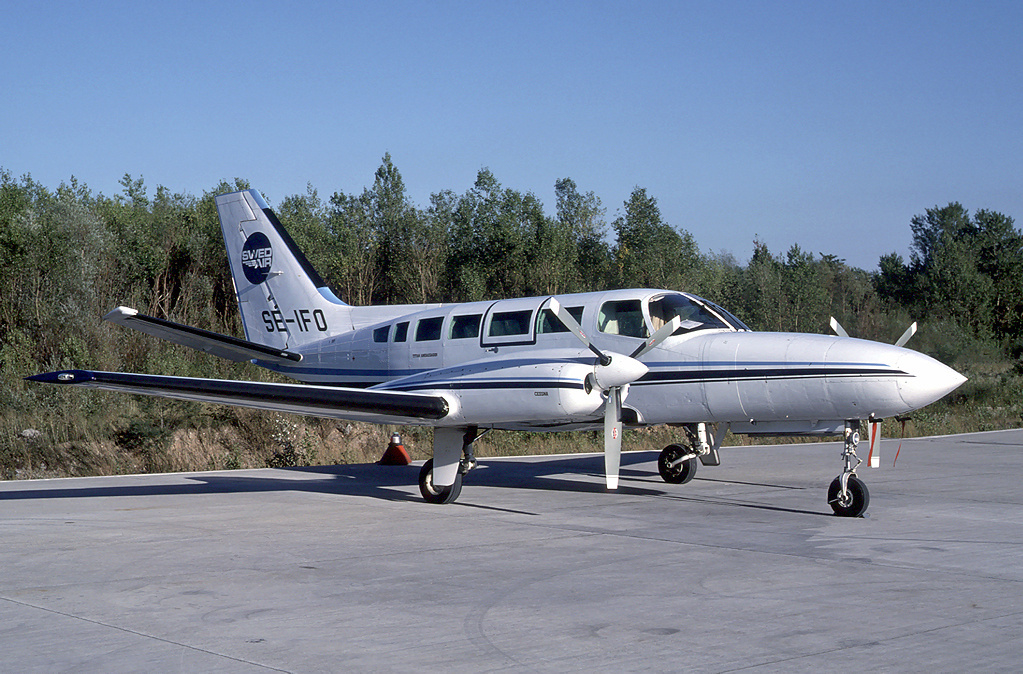 Swedair Cessna 404 Titan SE-IFO at Euroairport